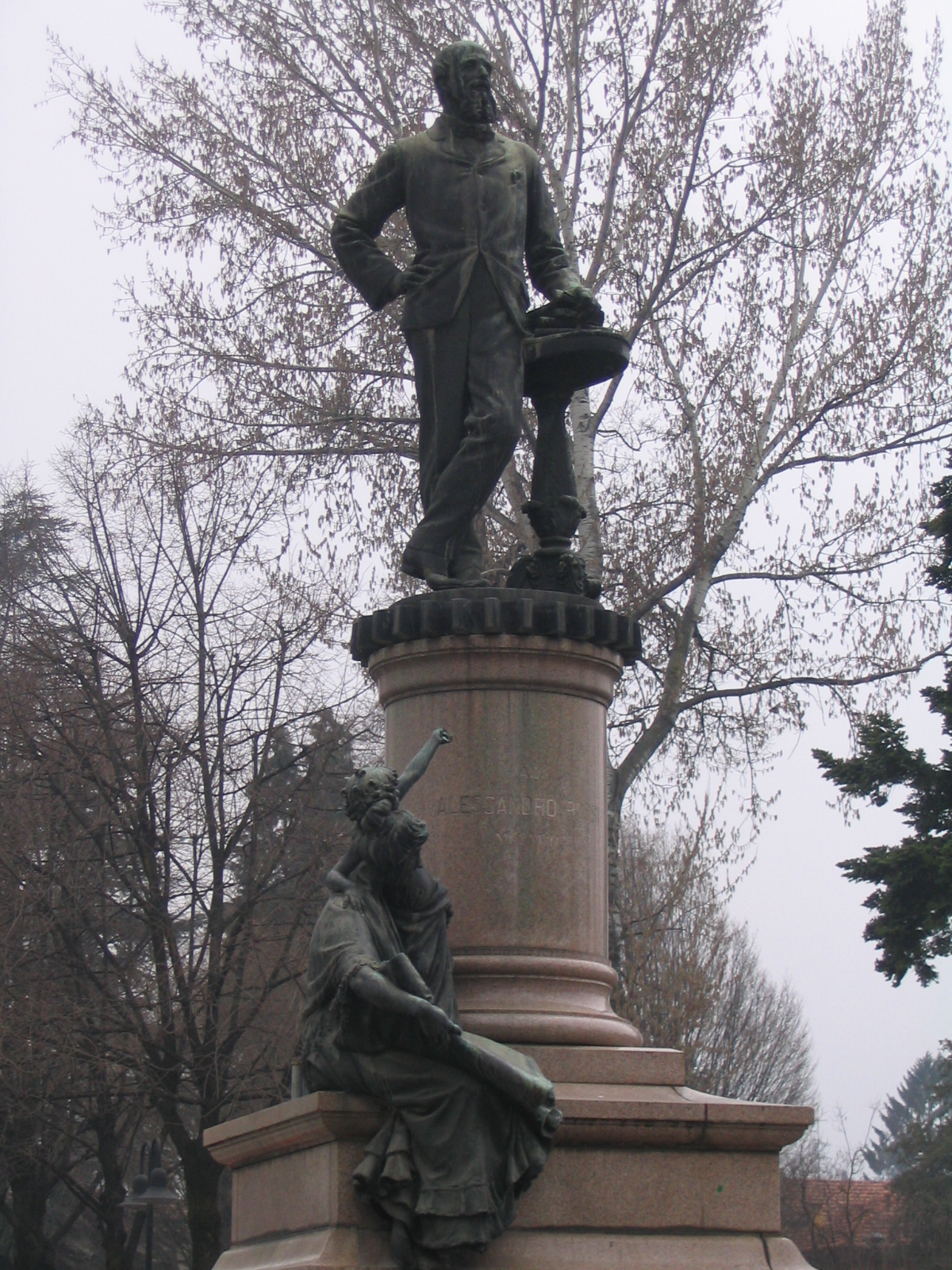 Batch Photo By wanblee =